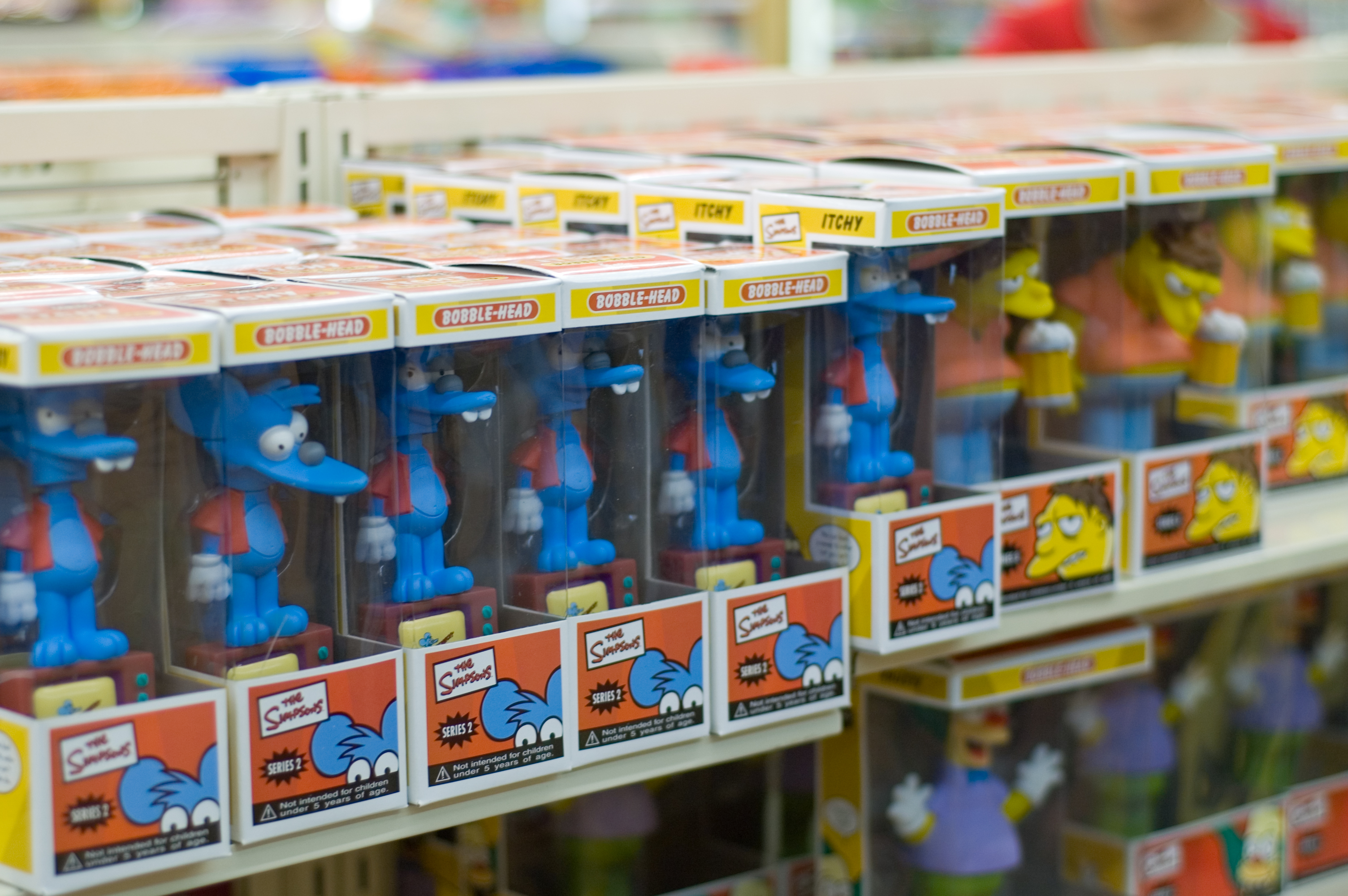 Simpsons merchandise at a Kwik-E-Mart converted 7-Eleven, July 2007.